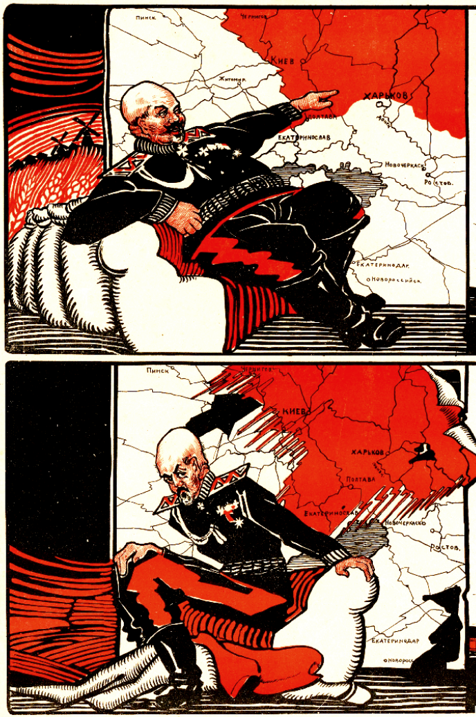 The two stages of the Anton Denikin's attempt to capture the heartland of Soviet Russia during the Civil War of 1919; satirical depiction in Bolshevik propaganda.